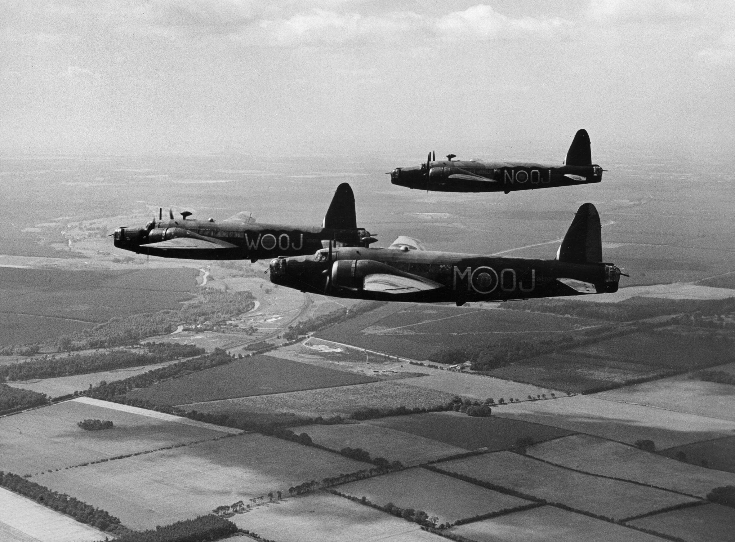 RAF Bomber Command 1940 Vickers Wellington Mk IC bombers of No. 149 Squadron in flight, circa August 1940.